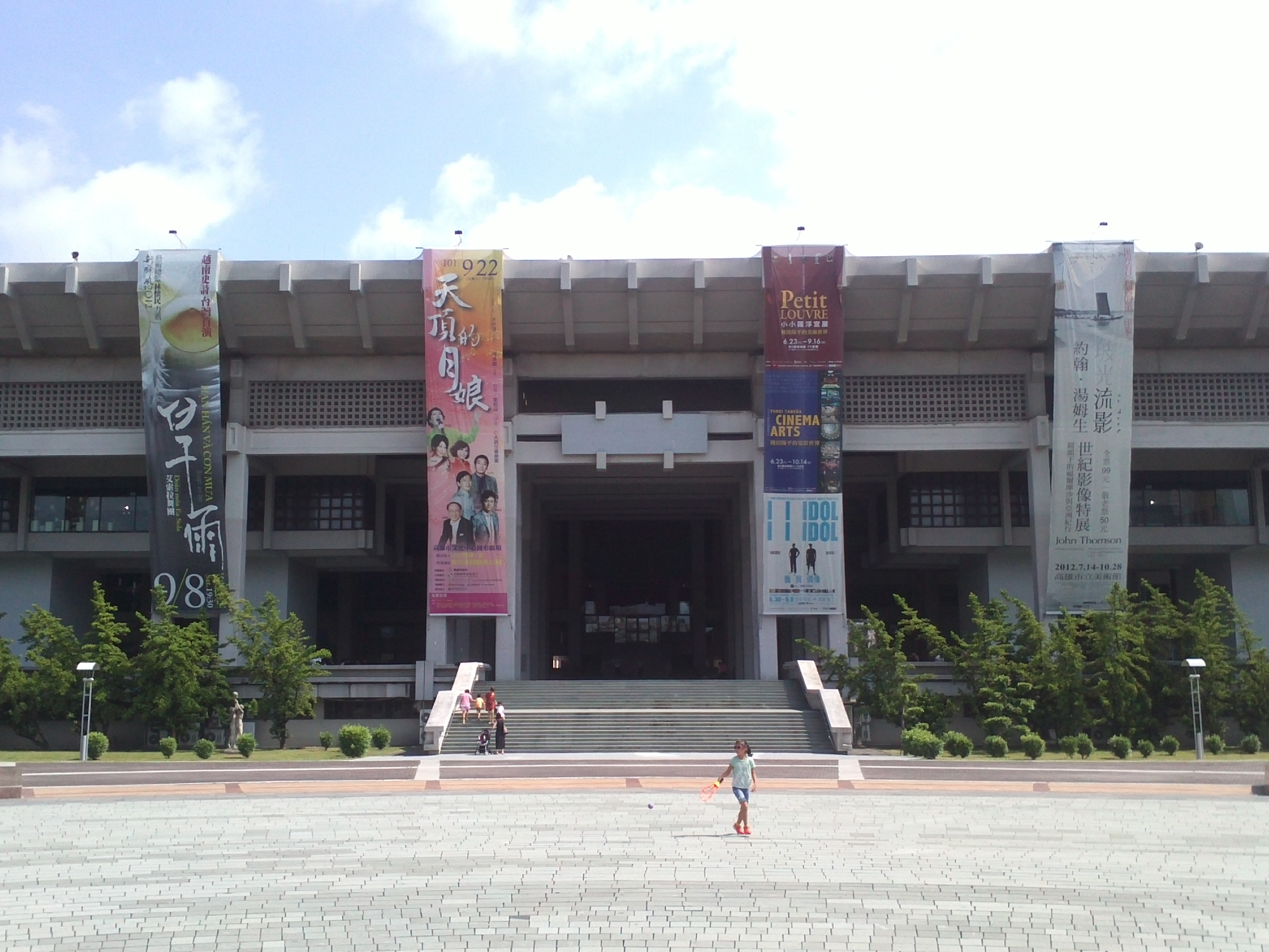 Kaohsiung Cultural Center, Lingya District, Kaohsiung City, Taiwan